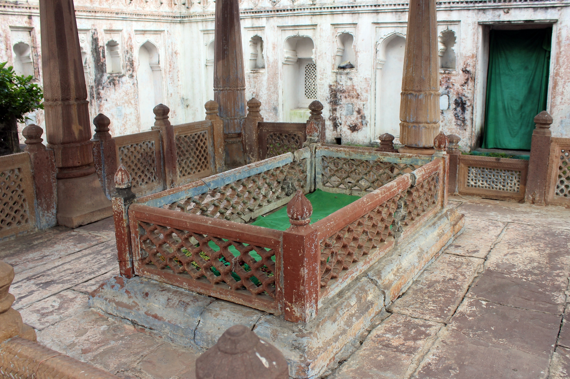 Golghar